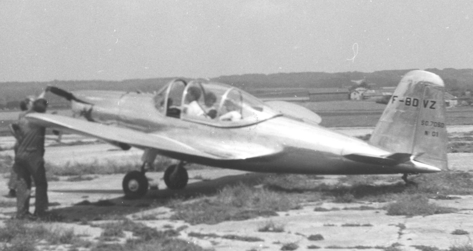 SNCASO SO.7060 Deaville No. 01 F-BDVZ at St Cyr l'Ecole airfield near Paris